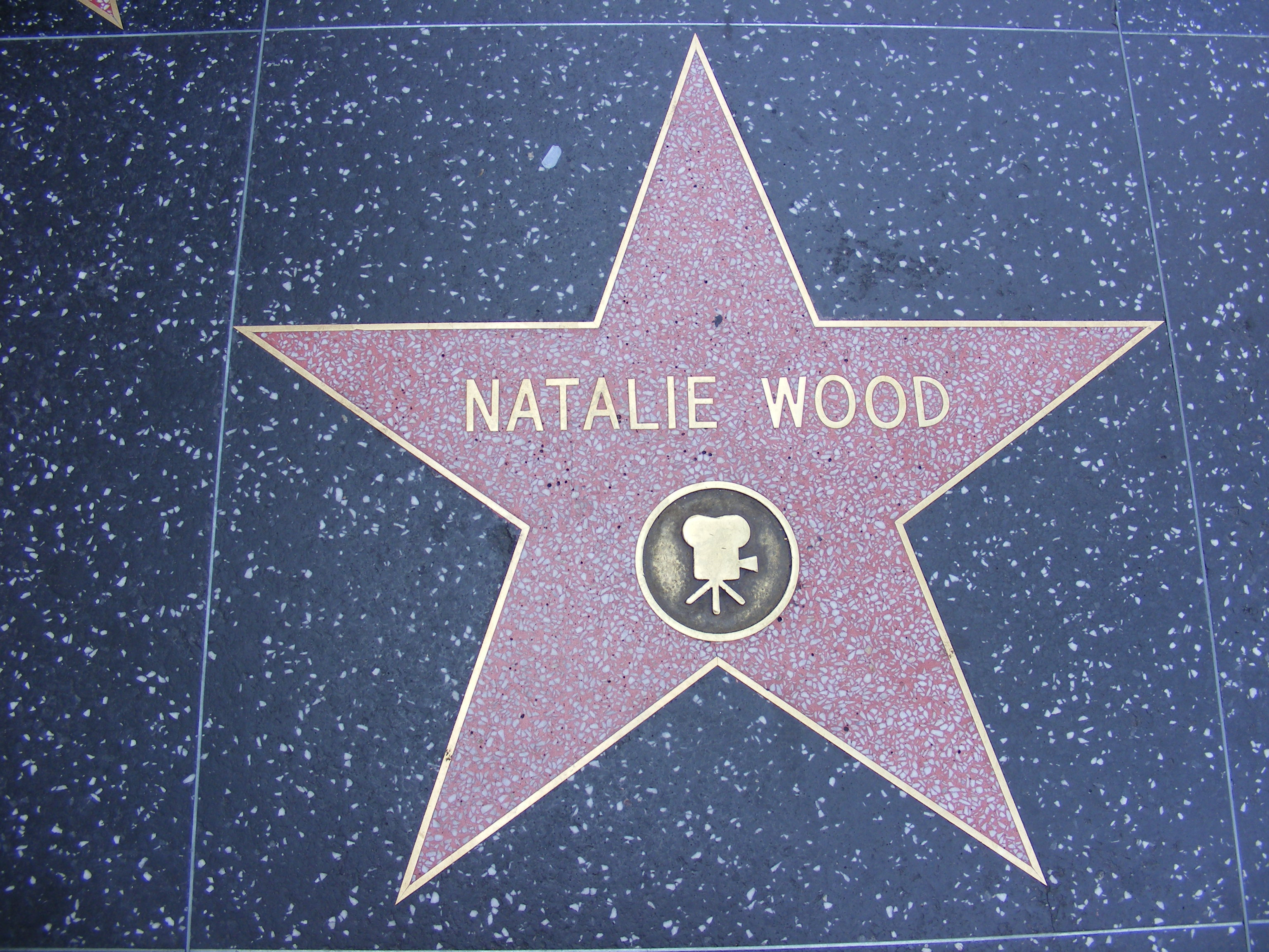 Natalie Wood's star on the Hollywood Walk of Fame